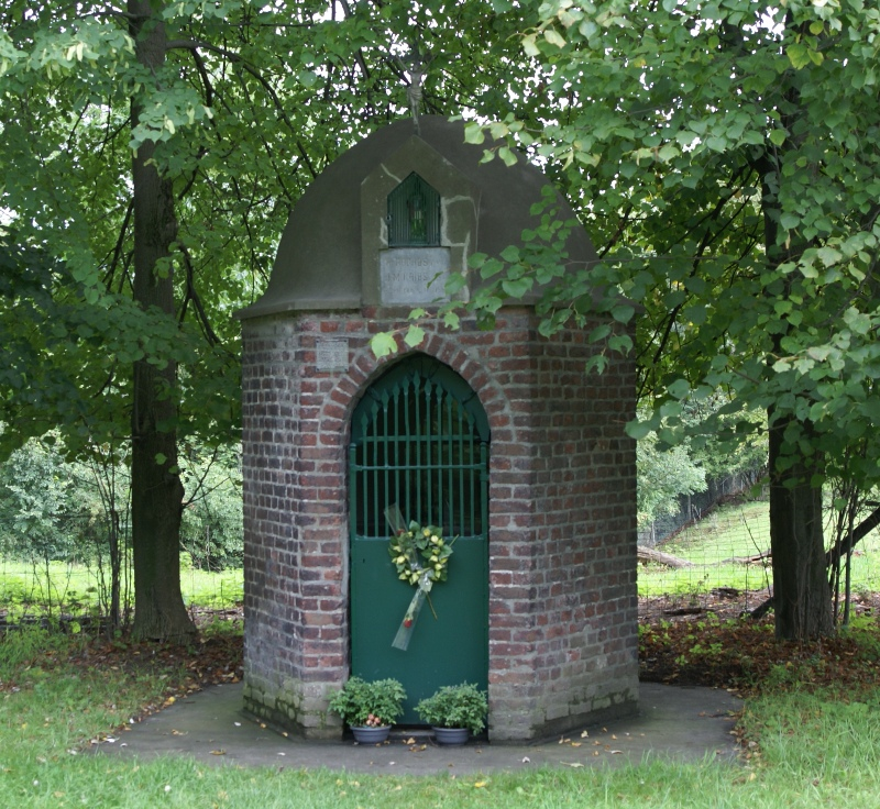 National monument no. 28030 - Sint-Rochuskapel (Sint-Pietersberg), Maastricht, The Netherlands.